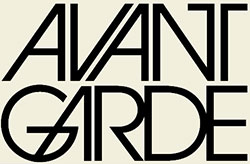 Avant Garde (magazine) logo